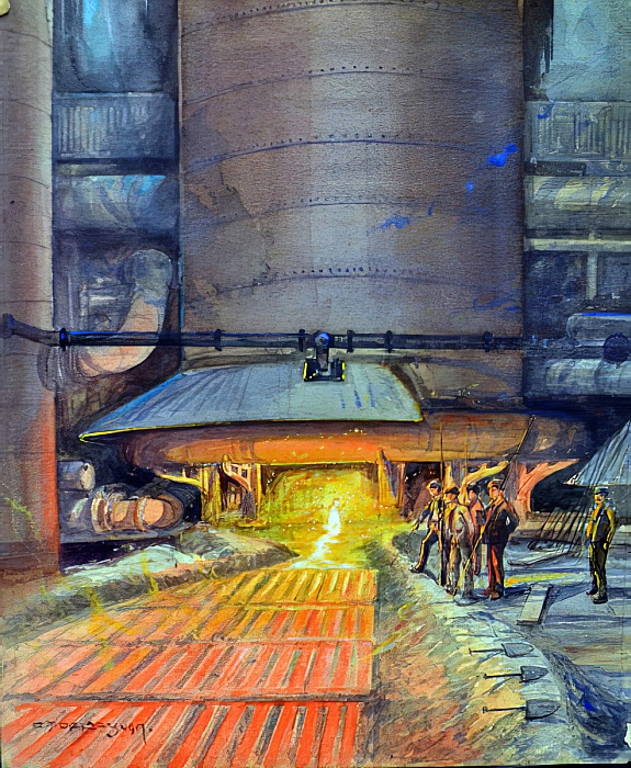 Steel workers casting girders 1917